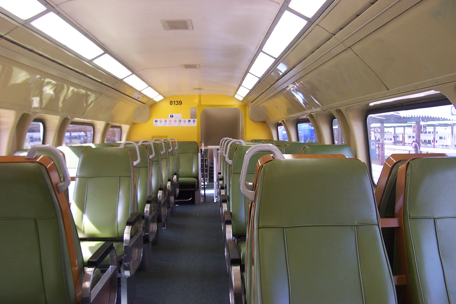 The upper deck of a DK series V set carriage.